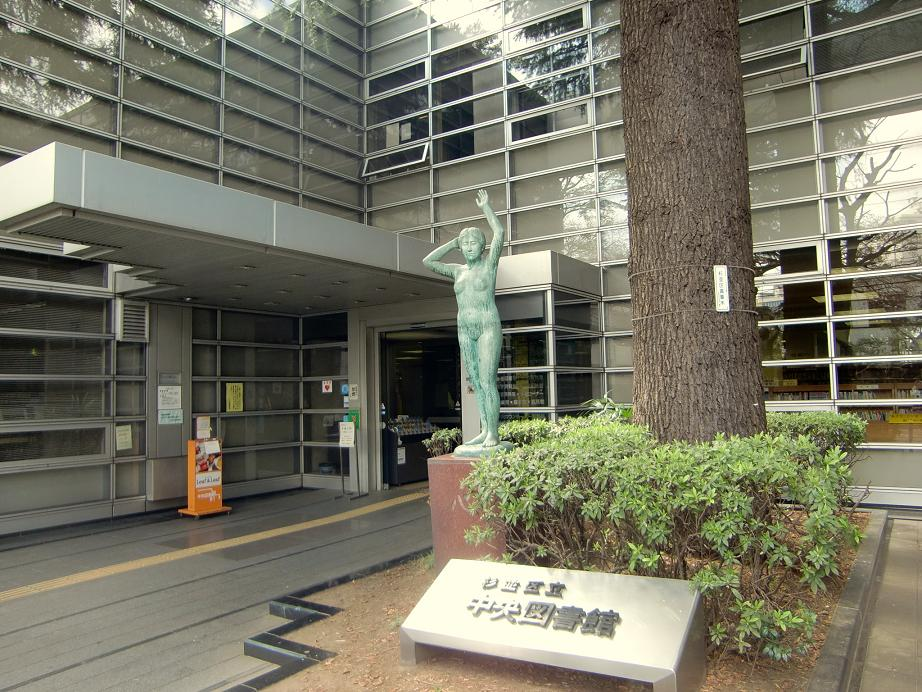 Suginami City Central Library Entrance in Suginami, Tokyo Japan.